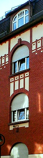 HN, Werderstr. 154